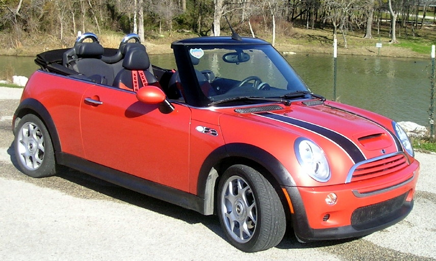 MINI Cooper S Convertible 2005. Photographed by SteveBaker